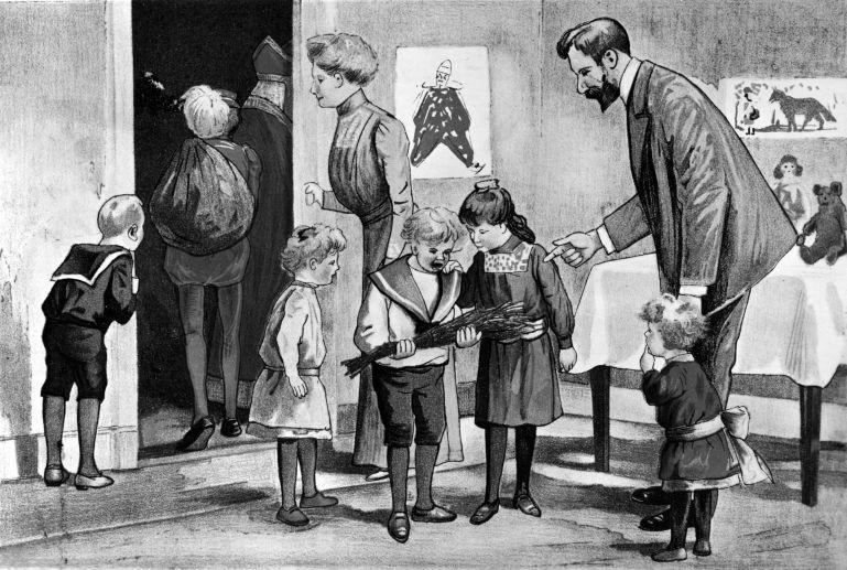 Dutch family celebrating Saint Nicholas' eve, a Dutch feast for children. One of the children got a bunch of twigs as punishment for bad behaviour. Hebt u meer informatie over deze foto, laat het ons weten. Laat een reactie achter (als u ingelogd bent bij Flickr) of stuur een mailtje naar: Please help us gain more knowledge on the content of our collection by simply adding a comment with information. If you do not wish to log in, you can write an e-mail to: Meer foto’s van Spaarnestad Photo zijn te vinden op onze beeldbank